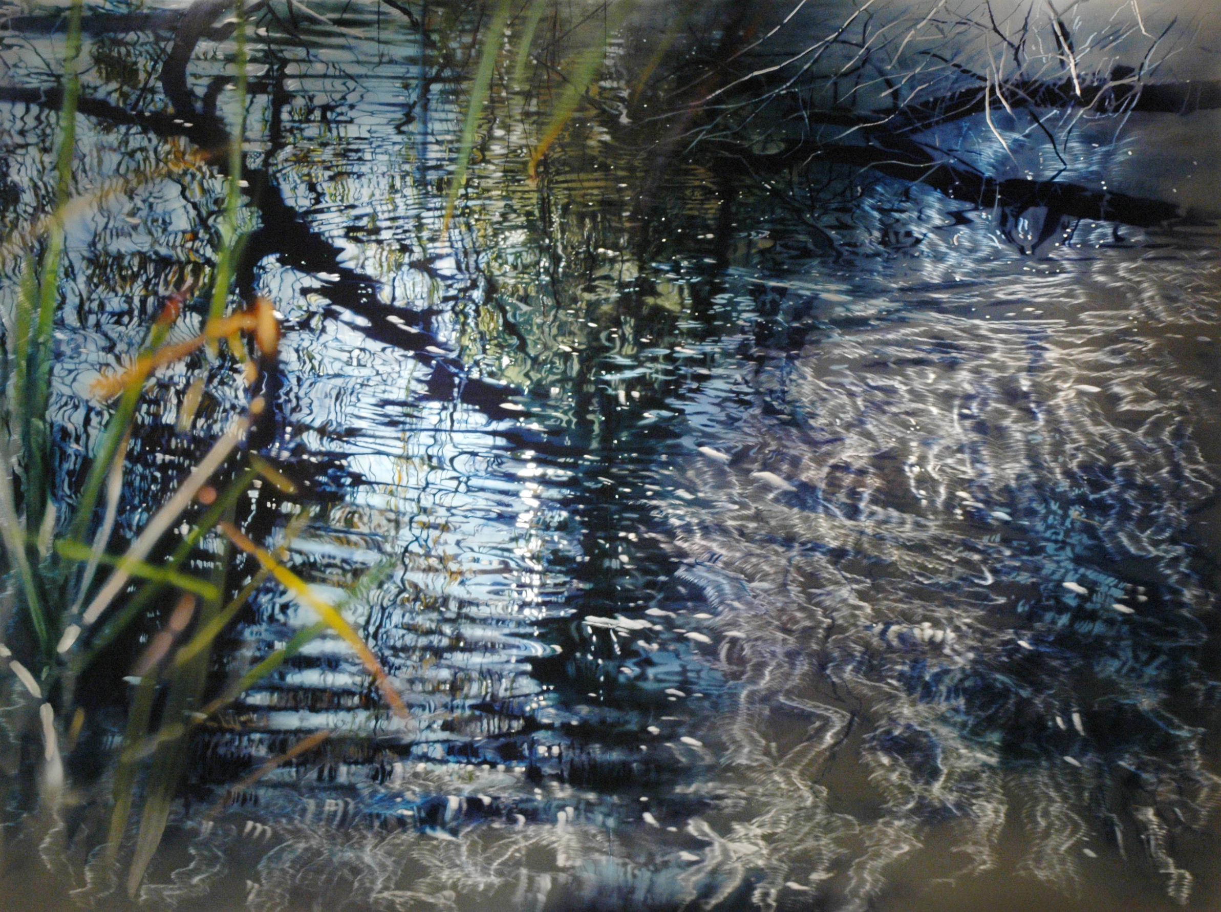 Painting on aluminum by Davd T Kessler, exhibited at his first one-man show at OK Harris Gallery in New York City